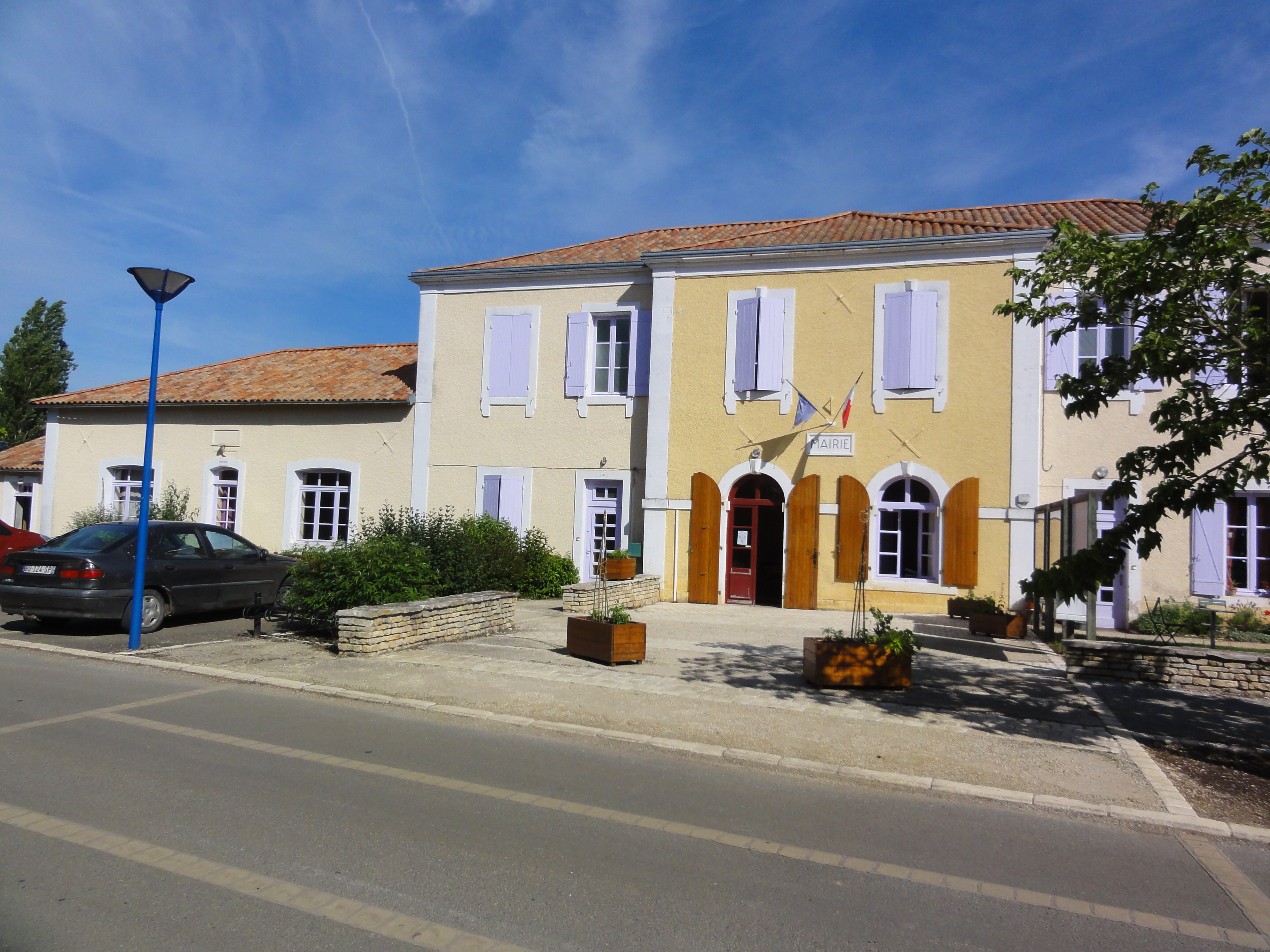 Sepvret (Deux-Sèvres) mairie